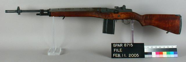 M14 Rifle Left Side